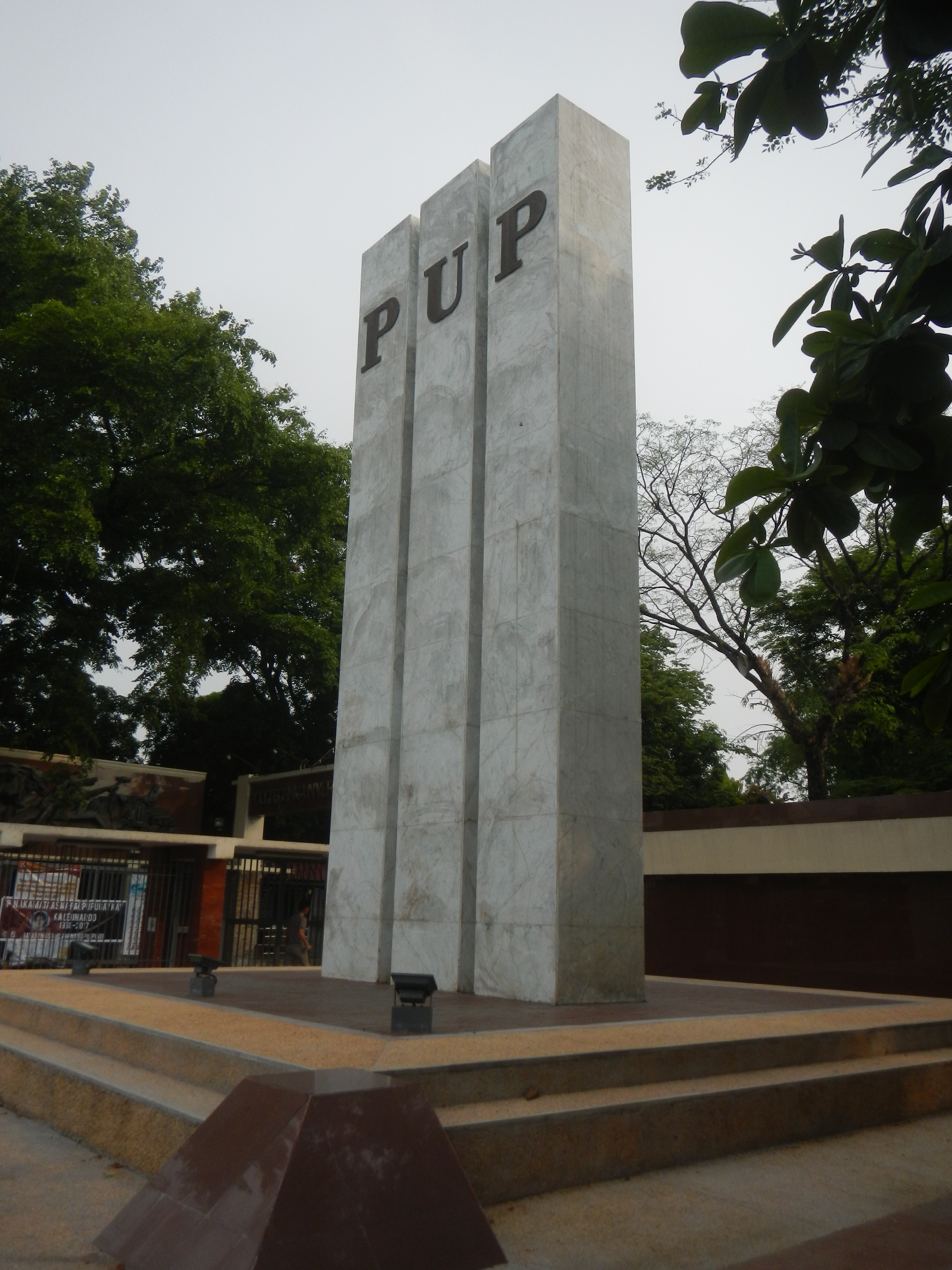 PNR Metro South Commuter Line Strong Republic Transit System Santa Mesa (PNR station) Santa Mesa station14°36'1"N 121°0'38"E for the use of newer Philippine National Railways diesel multiple units Dambana ng Kabayanihan Mabini Shrine (Manila) List of museums in Metro Manila Museo ni Apolinario Mabini (Mabini Shrine, PUP-Manila) Polytechnic University of the Philippines 14°35'52"N 121°0'38"E Anonas Street 14°35'54"N 121°0'45"E Santa Mesa Polytechnic University of the Philippines System Polytechnic University of the Philippines PUP in the List of barangays of Metro Manila Barangays 590, 591, Zone 58, 630, 631, Zone 63, District VI, Barangays 418, 419, 420, 421, 422, 423, 424, Zone 43, Barangays 425, 426, 427, Zone 43, District II, Sampaloc, Manila, Barangays 418, 419, 420, 421, 422, 423, 424, Zone 43, 579, 580, 581, Zone 56, District IV, 592, 593, Zone, 58, 626, 627, 628, 629, Zone 63, District VI, Santa Mesa has 49 barangays (Barangays 587-636) (Note: Judge Florentino Floro, the owner, to repeat, Donor Florentino Floro of all these photos hereby donate gratuitously, freely and unconditionally all these photos to and for Wikimedia Commons, exclusively, for public use of the public domain, and again without any condition whatsoever).